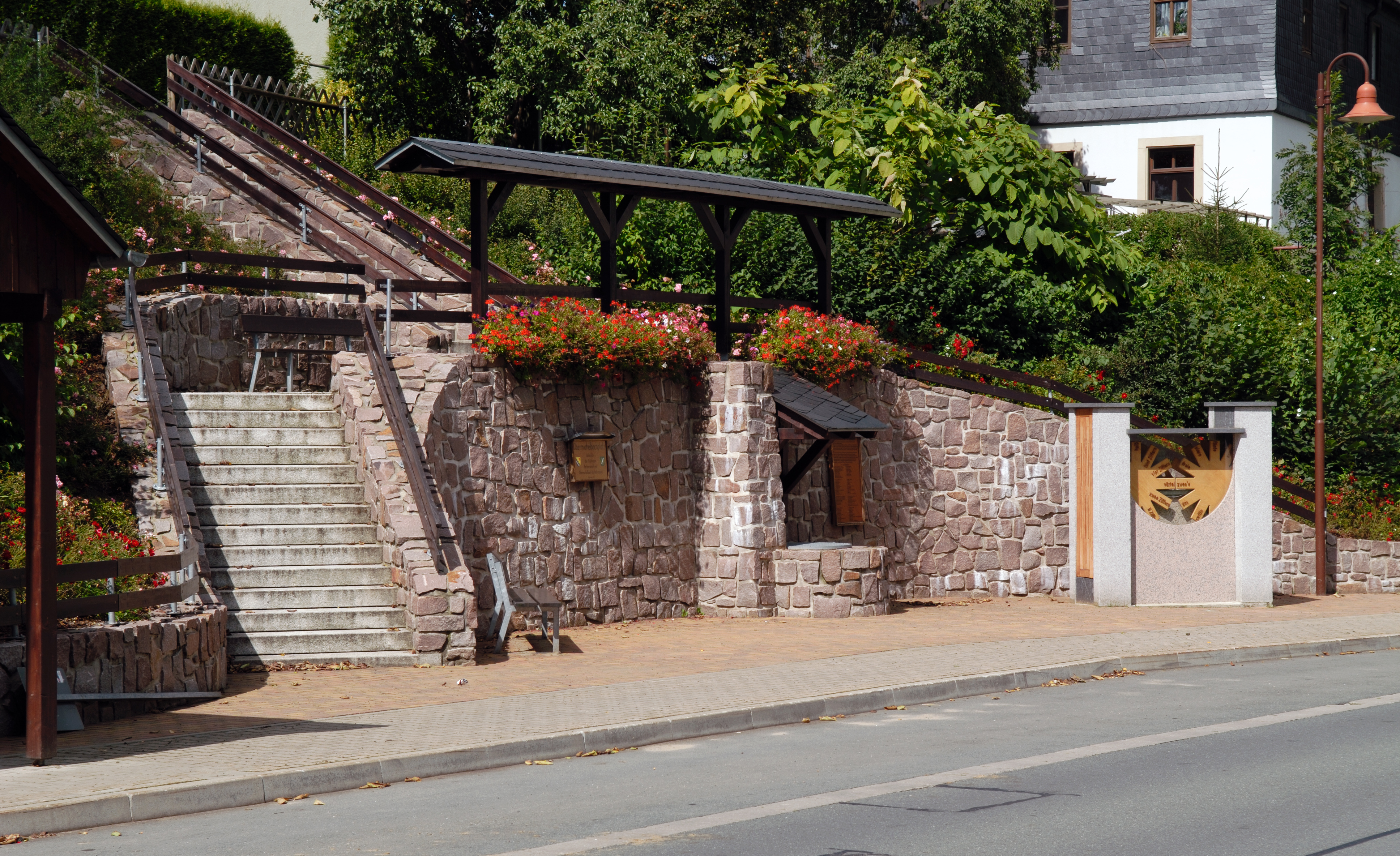 This image shows the Obermichelbachplatz in Hormersdorf in the Ore Mountains.